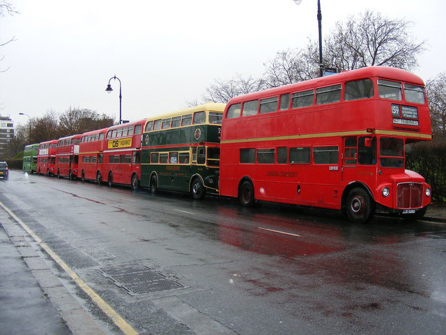 A row of seven privately owned preserved Routemaster buses, pictured parked up on the Prince Albert Road (A5205) near London Zoo and Regent's Park, about to leave on a return outing to Thornton Heath on the 8 December 2007 route 159 anniversary run, a recreation of Routemaster operation on route 159, which had stopped using Routemasters two years previously on 9 December 2005, as the last normal route using them in London (operation continued in London on the tourist focussed heritage routes, 9H and 15H). All of them wear various versions of red London Transport livery, except the second to front one, RM2186 (reg. CUV 186C), which wears a recreation of the livery it wore as one of the 1979 George Shillibeer Omnibus 150th anniversary buses, (see image of it travelling through Westminster later in the day), and the one at the rear is restored in London Country Bus Services NBC Green.